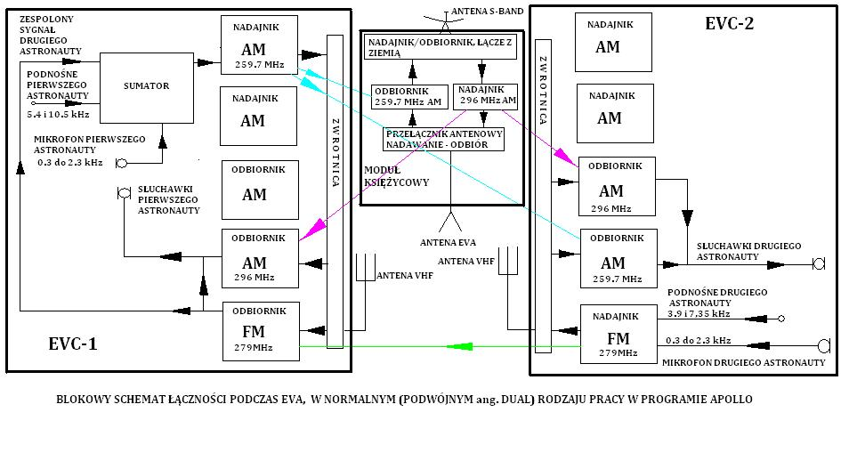 The Apollo extravehicular communications system (EVCS) in dual mode.